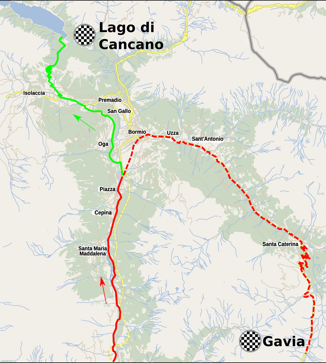 Map of the modified final of stage 5 from Giro rosa 2019